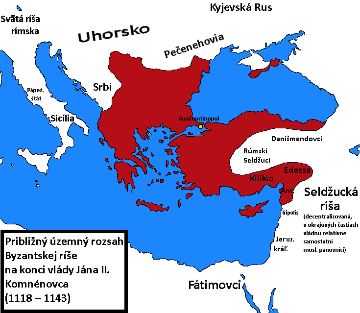 Approximate range of Byzantine empire under John II. Comnenos (1118-1143)